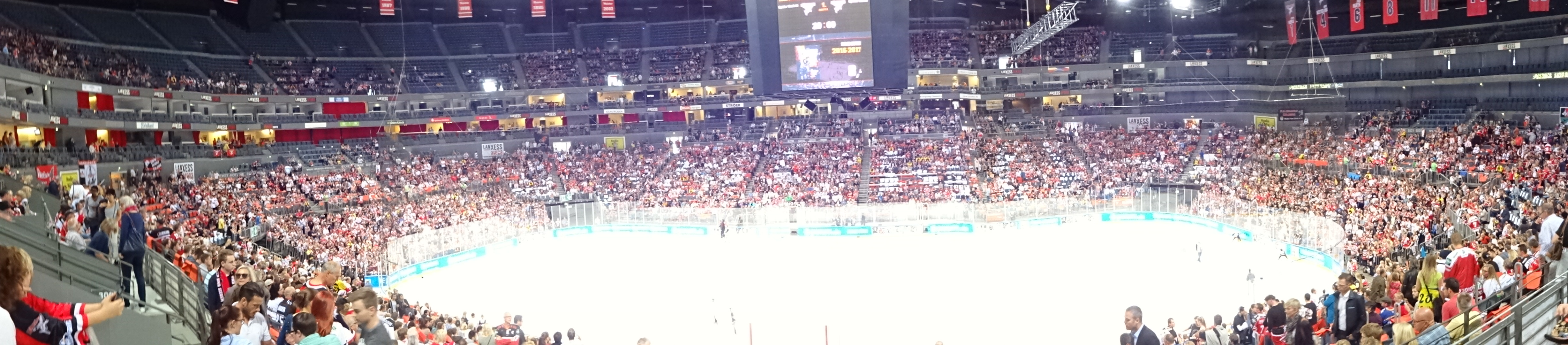 Panorama of the testimonial match of Mirko Lüdemann (Lüde´s letzte Eiszeit)